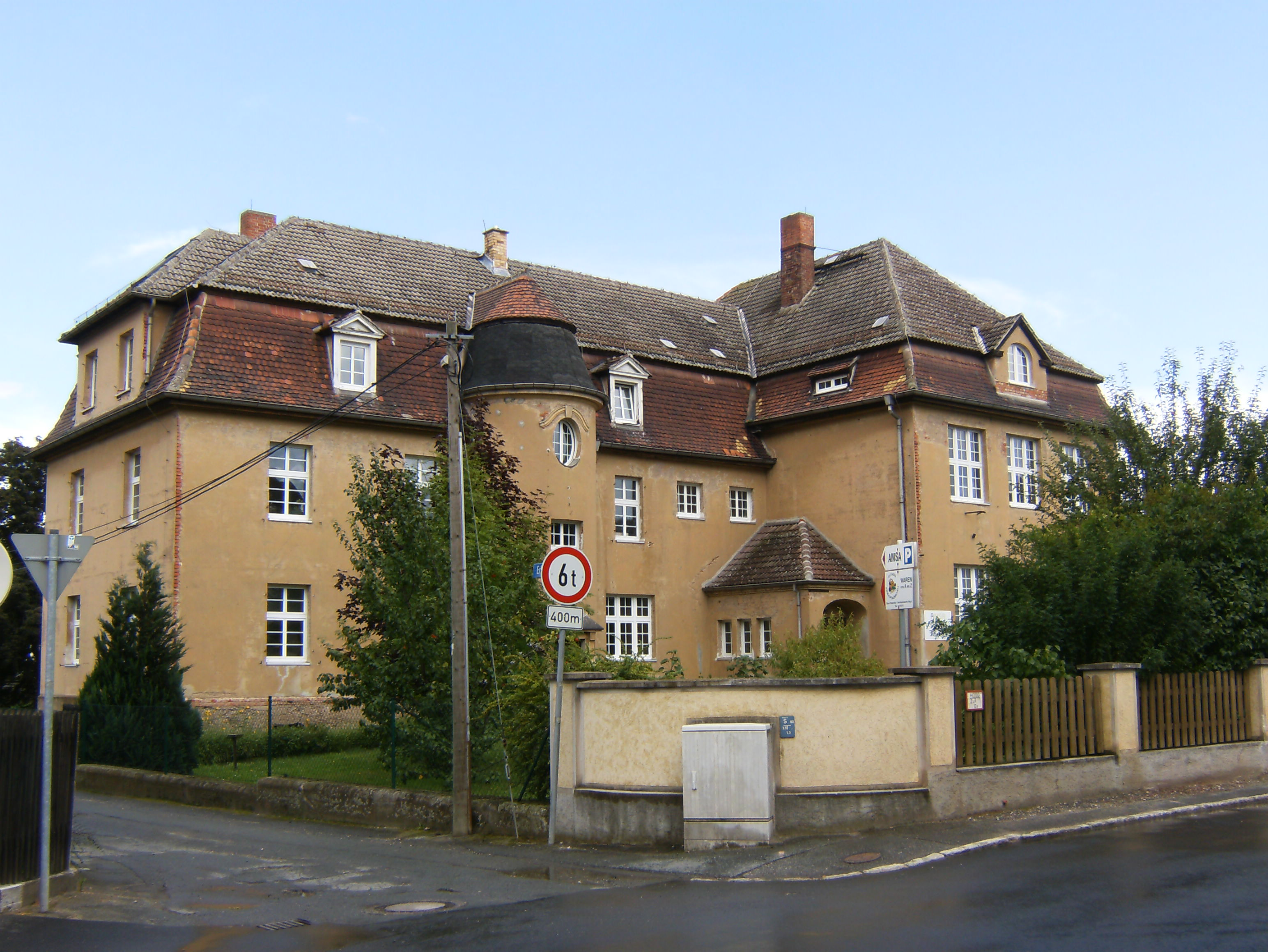 Former elementary school, nowadays used by a private medical and social education academy.